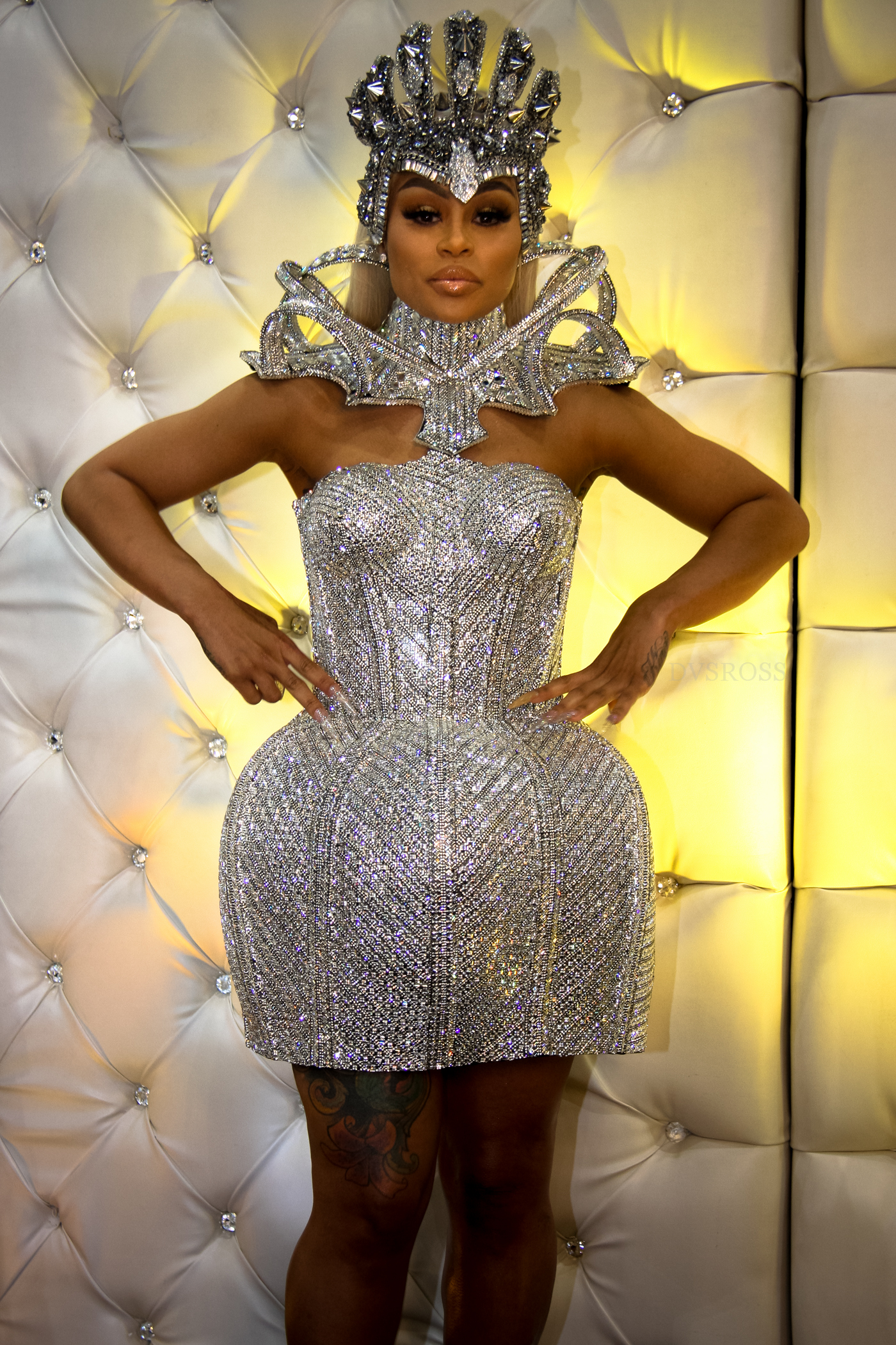 Blac Chyna at RuPaul's Dragcon 2019